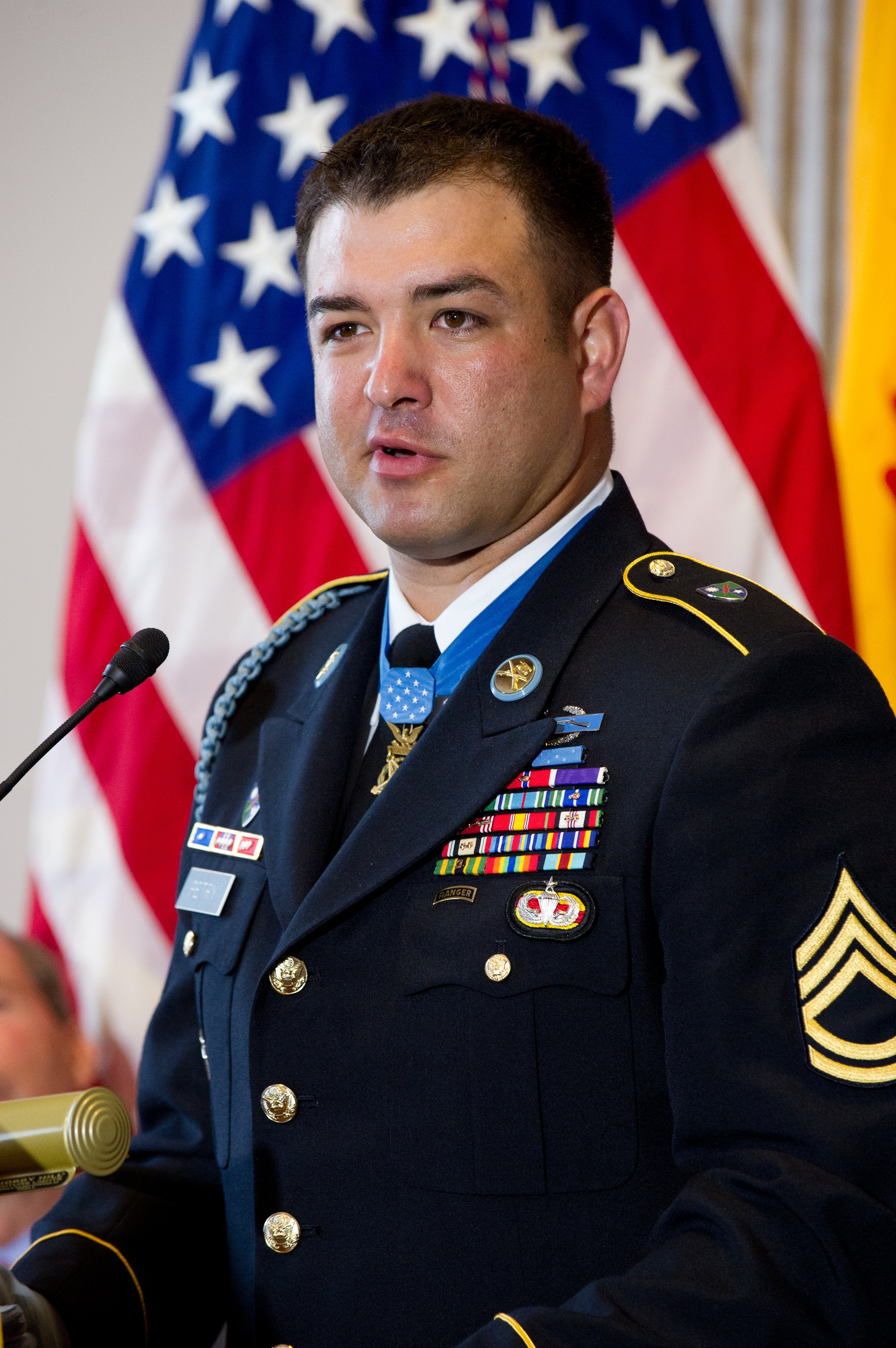 Portrait of Medal of Honor recipient Leroy Petry